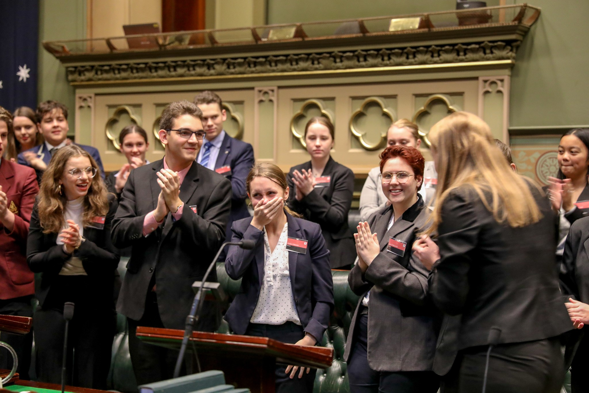 A photo taken during the 2019 YMCA NSW Youth Parliament with the new Youth Governor being announced